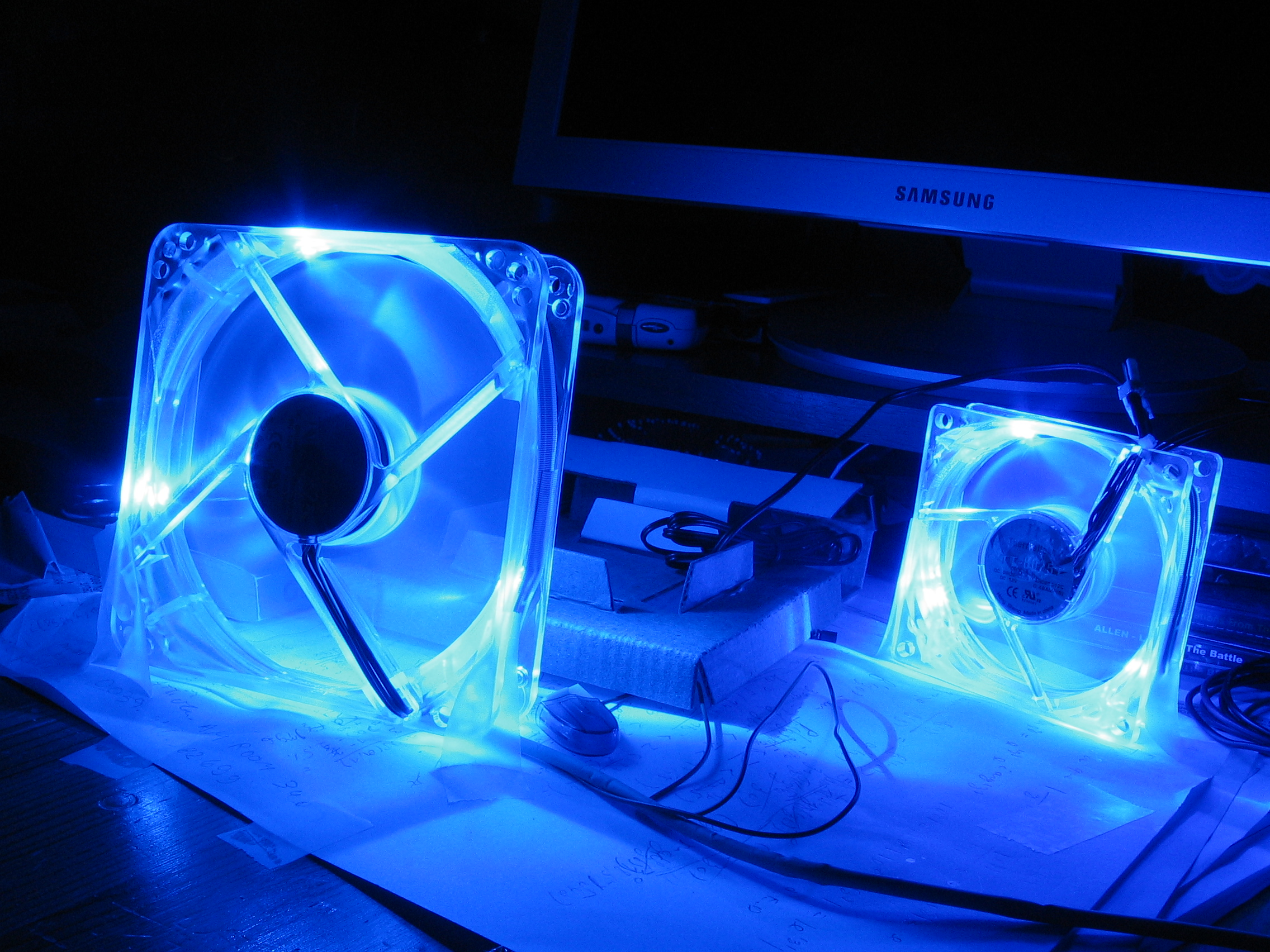 Two Thermaltake 12V DC fans glowing in the dark. They are being viewed from behind. The one on the front is a Thunderblade A1926 (120mm, TT-1225); the other is an A2016 (80mm, TT-8025T).